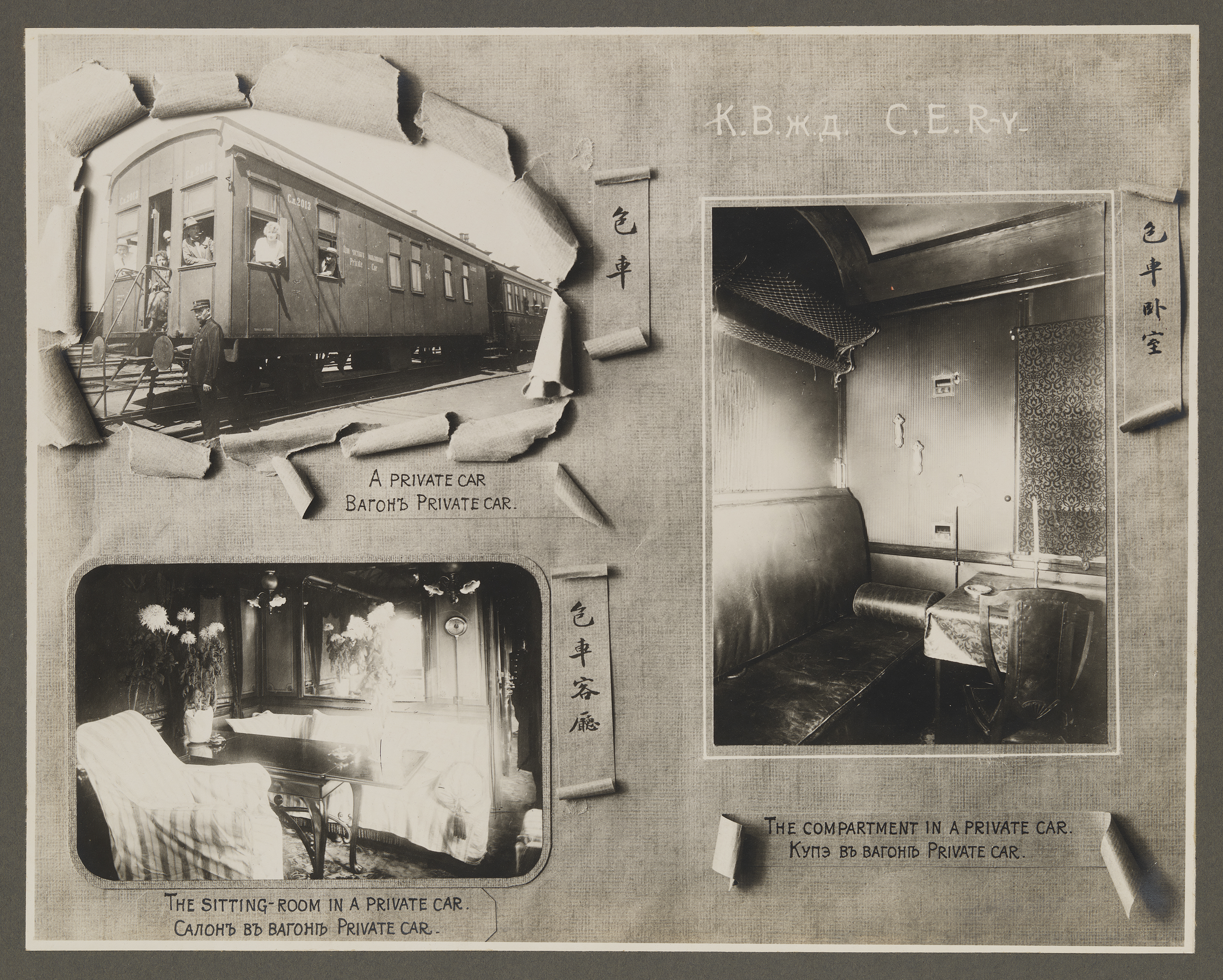 Title: [Chinese Eastern Railway: Exterior and Interior Views of a Private Passenger Car] Creator: Unknown Date: ca. 1903-1919 Place: People's Republic of China Part Of: Description: This photograph is part of an album, Views of the Chinese Eastern Railway, which contains 42 photographic prints. The Chinese Eastern Railway, also known as the Trans-Manchurian line of the Trans-Siberian Railway, linked Chita to Vladivostok. Physical Description: 1 photographic print: gelatin silver, part of 1 volume (42 gelatin silver prints); 21 x 27 cm on 27 x 38 cm File: ag1987_0662x_06_opt.jpg Rights: Please cite DeGolyer Library, Southern Methodist University when using this file. A high-resolution version of this file may be obtained for a fee. For details see the web page. For other information, . For more information, View the full album: View the